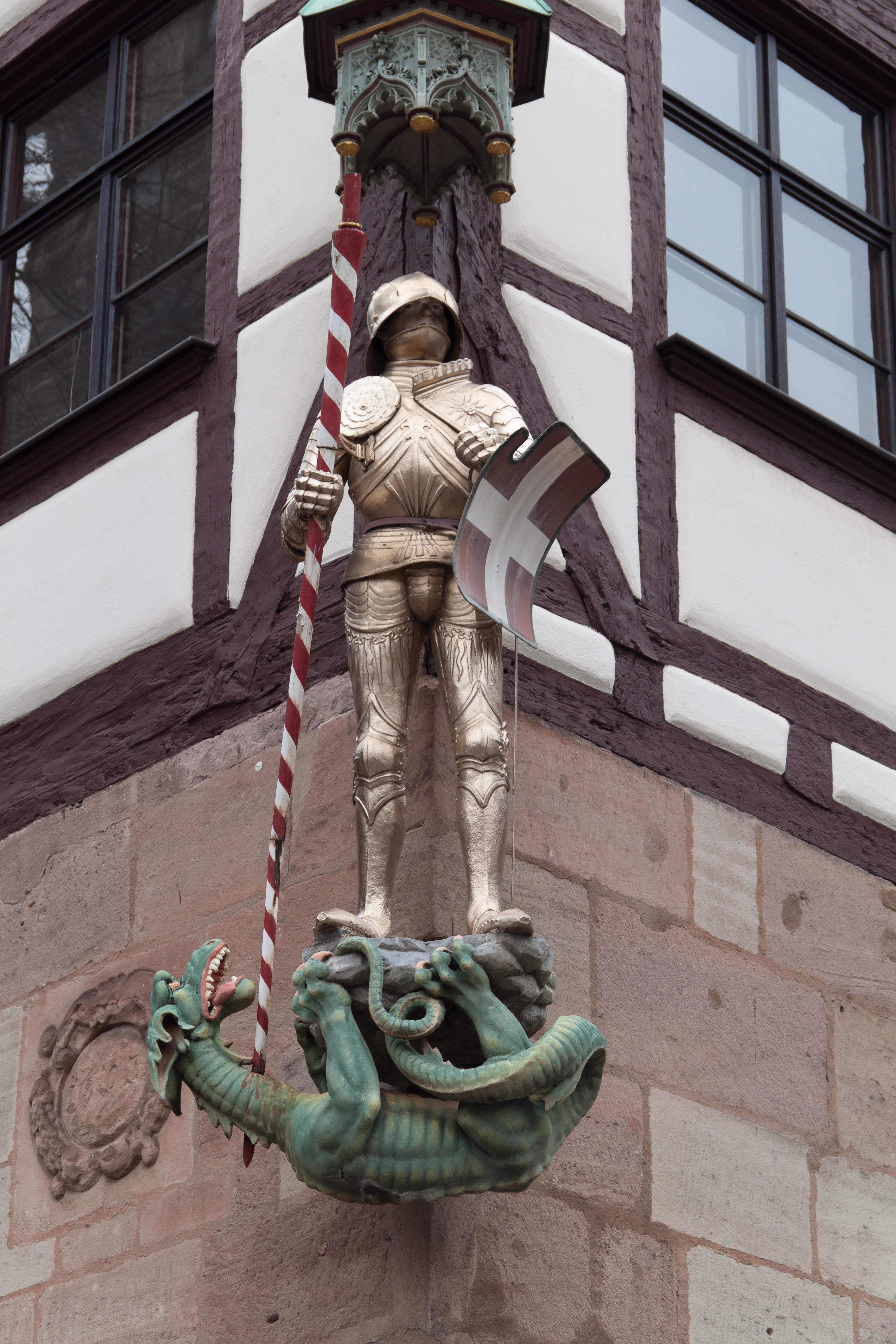 Saint George defeats the dragon. Sculpture at the Pilatushaus, Nürnberg.